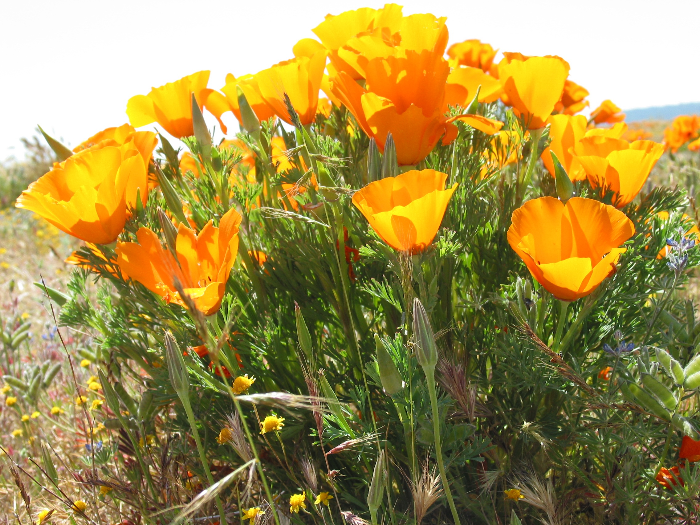 California Poppies (Eschscholzia californica) in Antelope Valley California Poppy Reserve ; yellow poppy; gelber Mohn